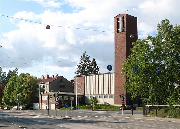 St. Mary's Catholic church located in Helsinki, Finland. Attribution: Paju.